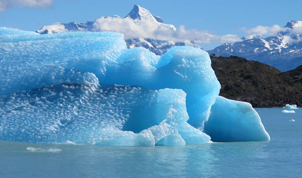 Calving front of the Upsala Glacier (Argentina). This glacier has been thinning and retreating at a rapid rate during the last decades – from 2006 to 2010, it receded 43.7 yards (40 meters) per year. During summer 2012, large calving events prevented boat access to the glacier. To learn about the contributions of glaciers to sea level rise, visit: Credit: Etienne Berthier, Université de Toulouse NASA image use policy. NASA Goddard Space Flight Center enables NASA’s mission through four scientific endeavors: Earth Science, Heliophysics, Solar System Exploration, and Astrophysics. Goddard plays a leading role in NASA’s accomplishments by contributing compelling scientific knowledge to advance the Agency’s mission. Follow us on Twitter Like us on Facebook Find us on Instagram